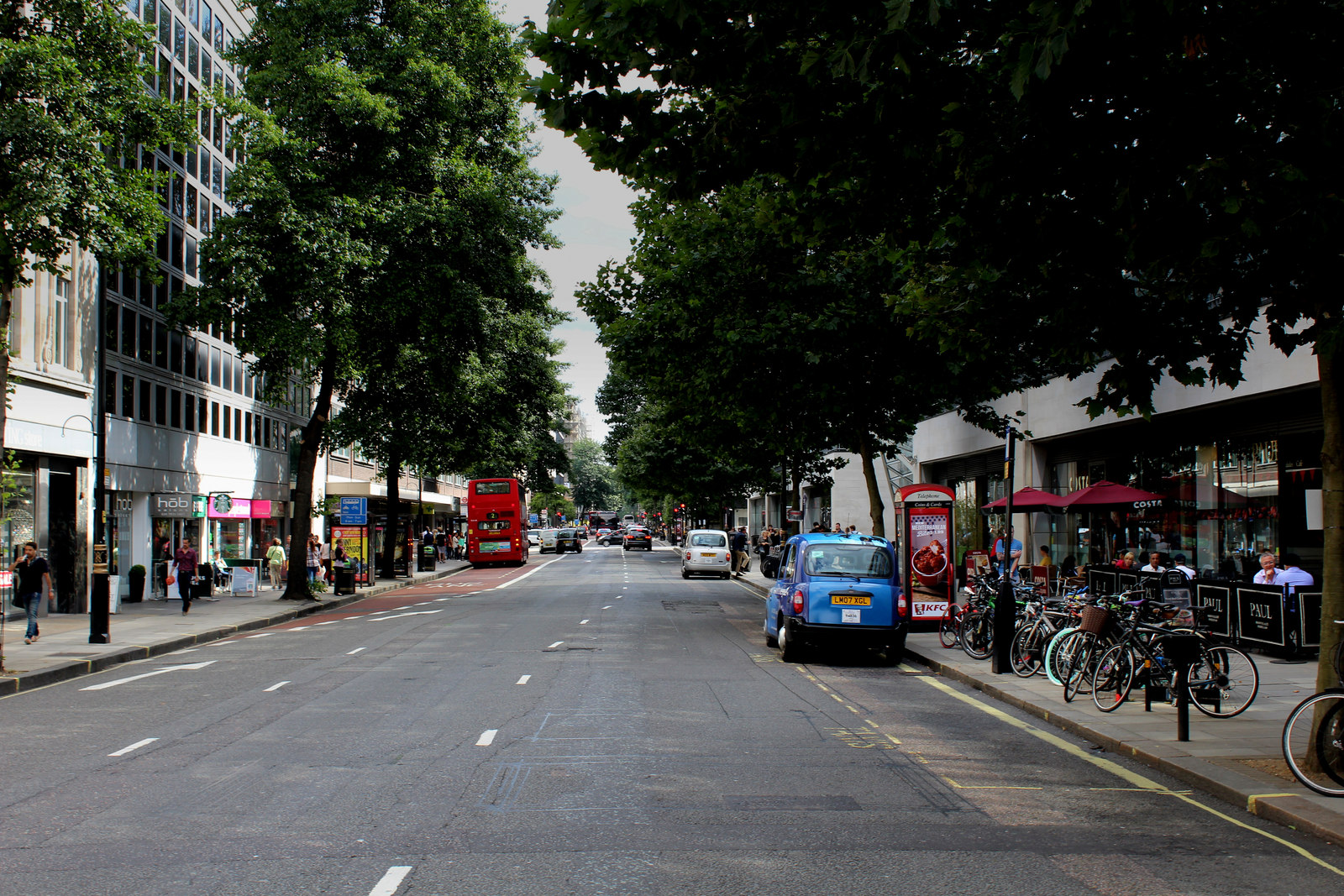 Baker Street